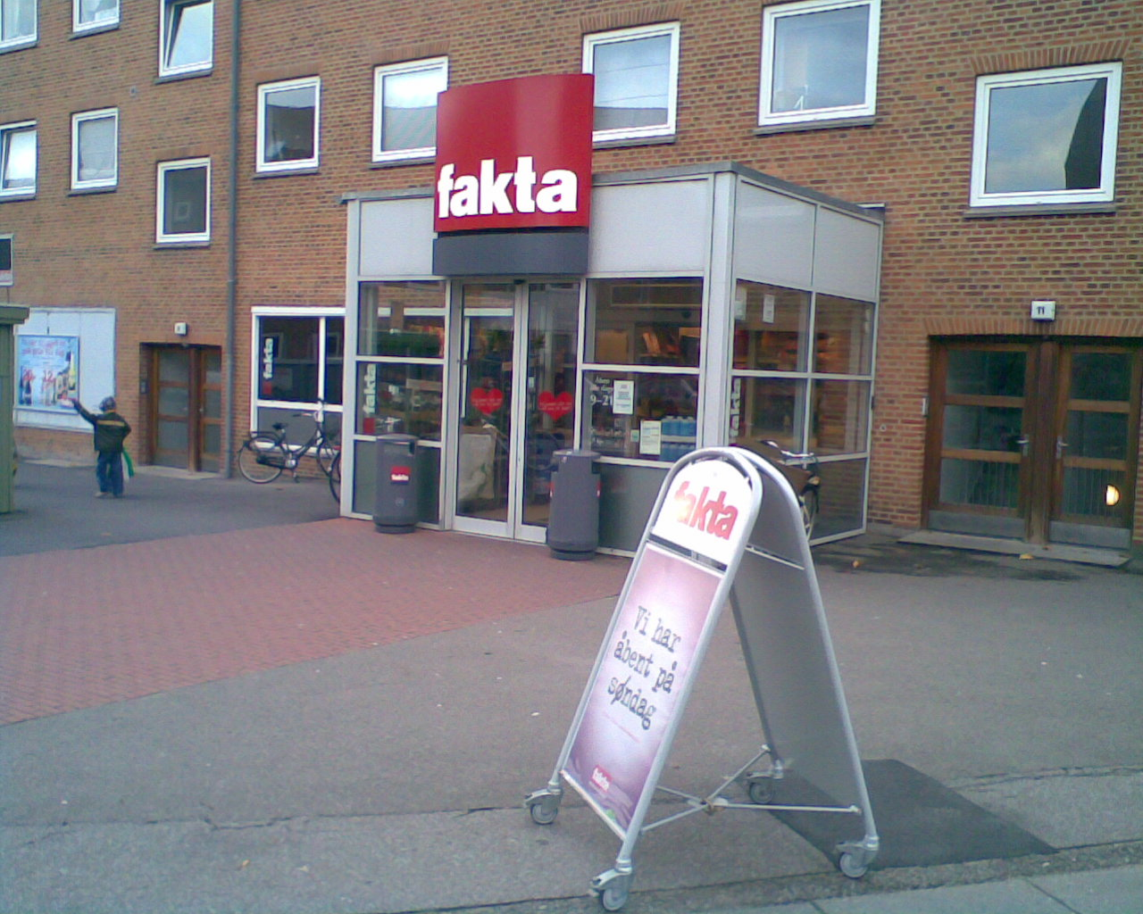 The supermarket Fakta at Jens Baggesens Vej, Århus, Denmark